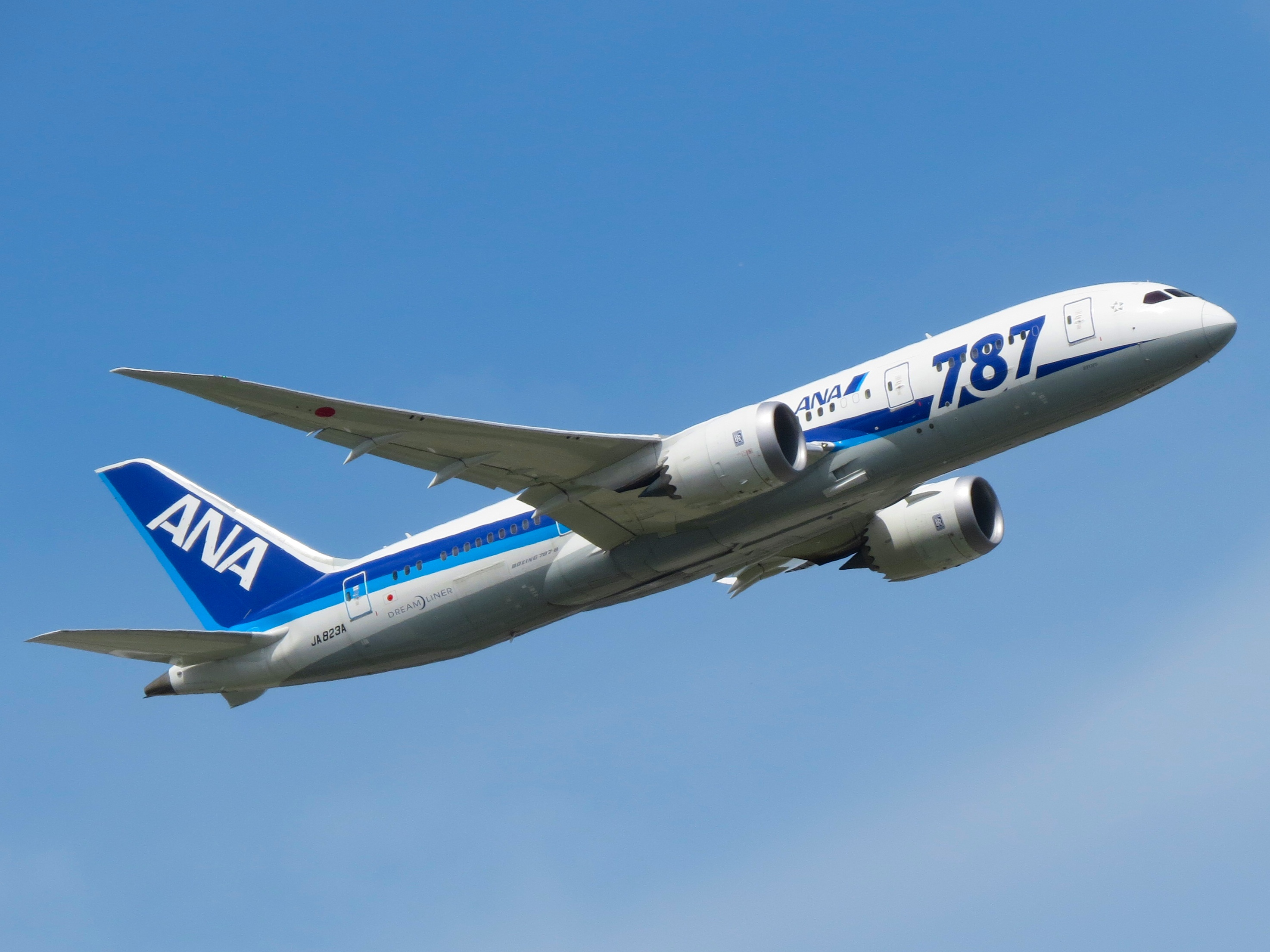 Frankfurt Airport